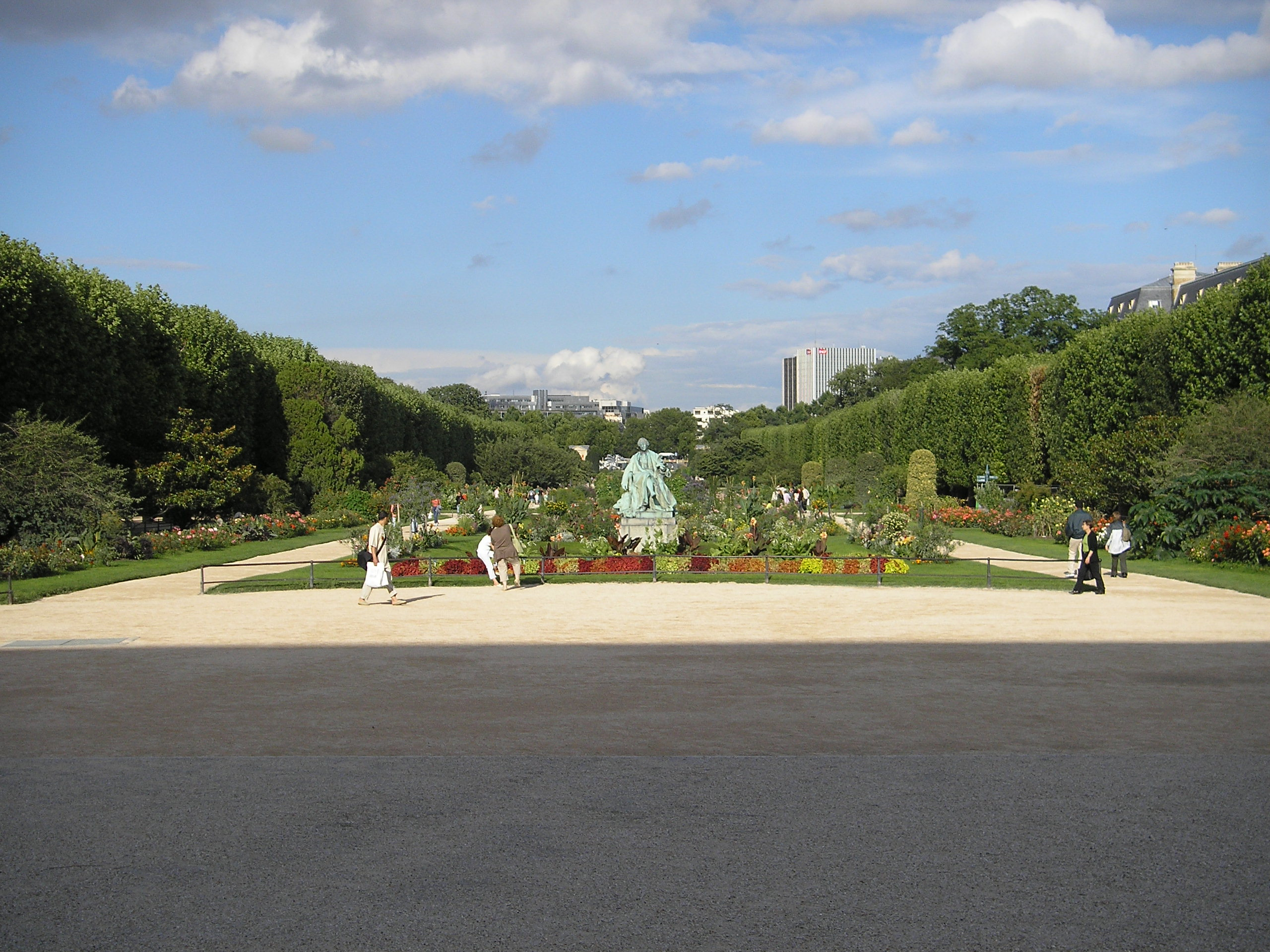 Image of the Jardin des Plantes in Paris.